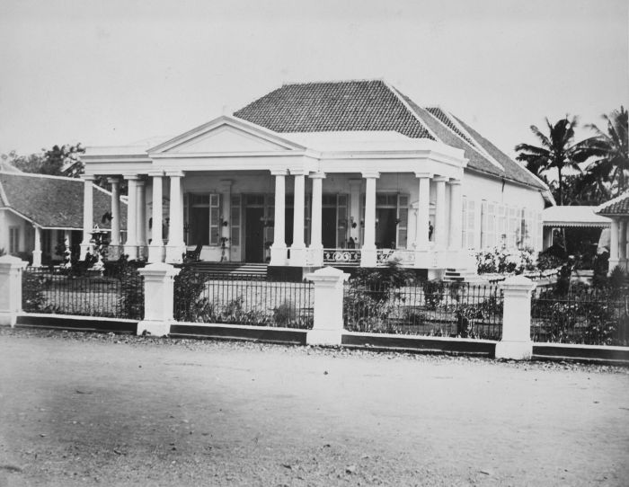 Hotel Preanger